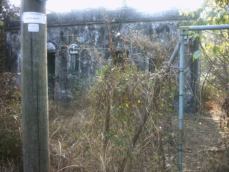 Photo taken in Hai Sain Church, Hong Kong Tai Long Sai Wan, in the top, it writen 1903 and 天主堂(Church), In the left is 海星聖堂(Hai Sain Church, what mean the church of sea and star.) and now become doom.香港西貢大浪西灣西灣村的教堂兼學校--海星小堂，據村民說為大理石建築，建築於六十年代荒廢，樓面上部寫著1903及天主堂，左邊為海星聖堂，現在連前往至建築的道路都早已荒廢了。